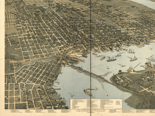 Bird's eye view of Jacksonville, Florida, United States.